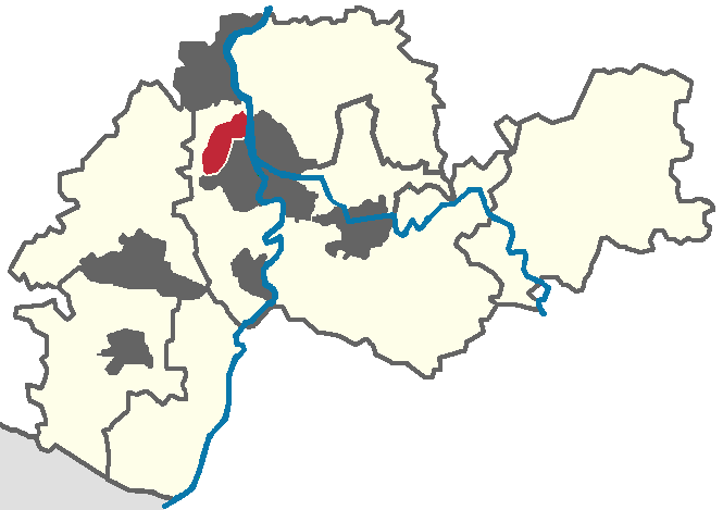 Frankenthal in the Rhine Neckar Area (Rhein-Neckar-Dreieck) in Germany